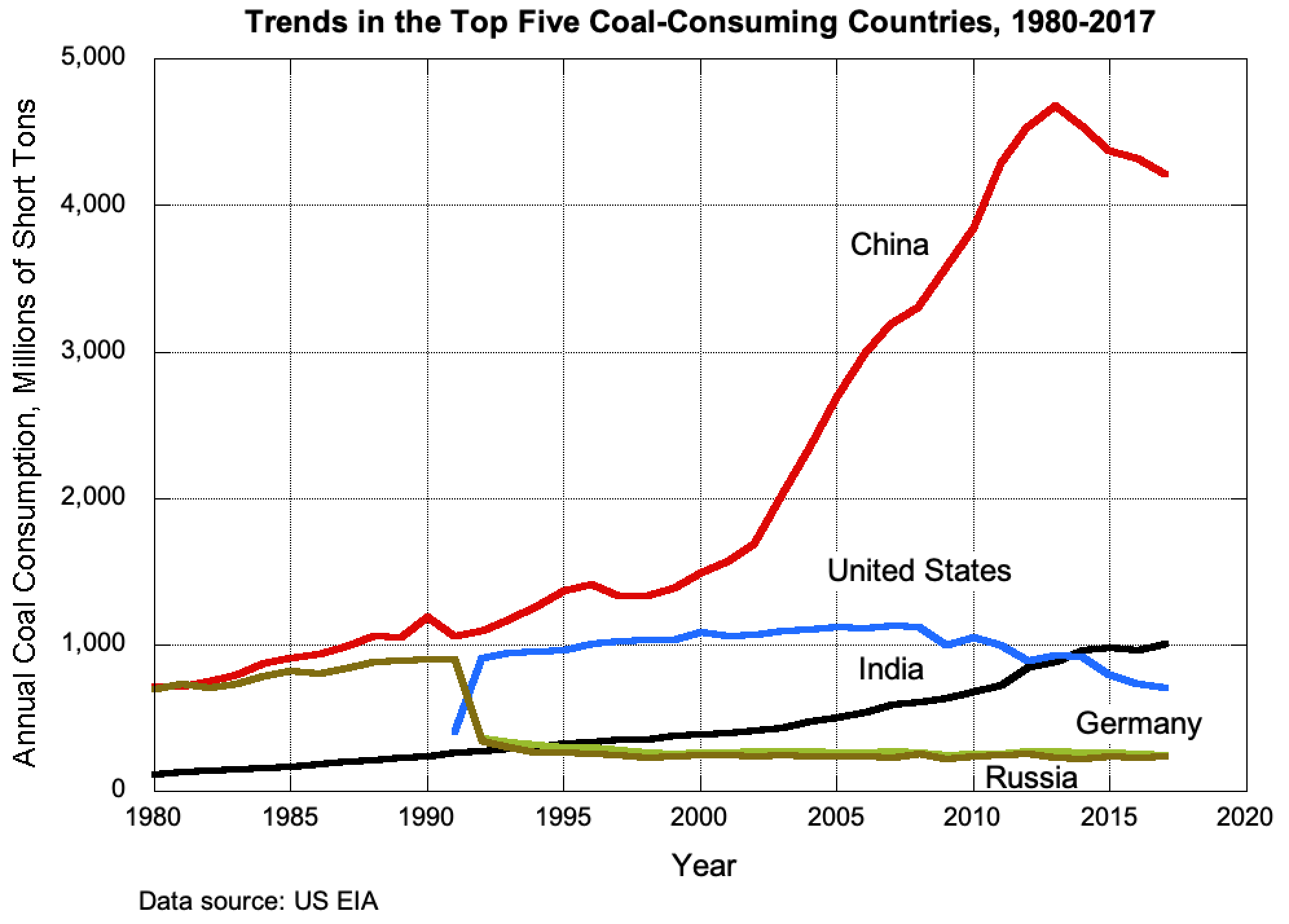 Plot of coal consumption in million short tons, top 5 coal consuming countries 1980-2017, from US EIA data.